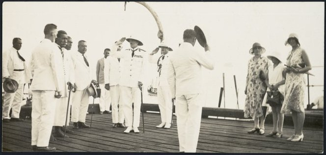 General Herbert Hart (centre) receiving the salute on arrival in Apia, as administrator of New Zealand's League of Nations mandate in Western Samoa. Mrs Hart and their two daughters stand at right. Photograph taken April 1931 by Alfred James Tattersall.